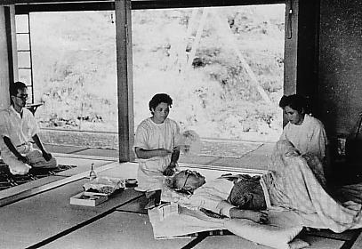 Yokokawa's Recuperation at Home